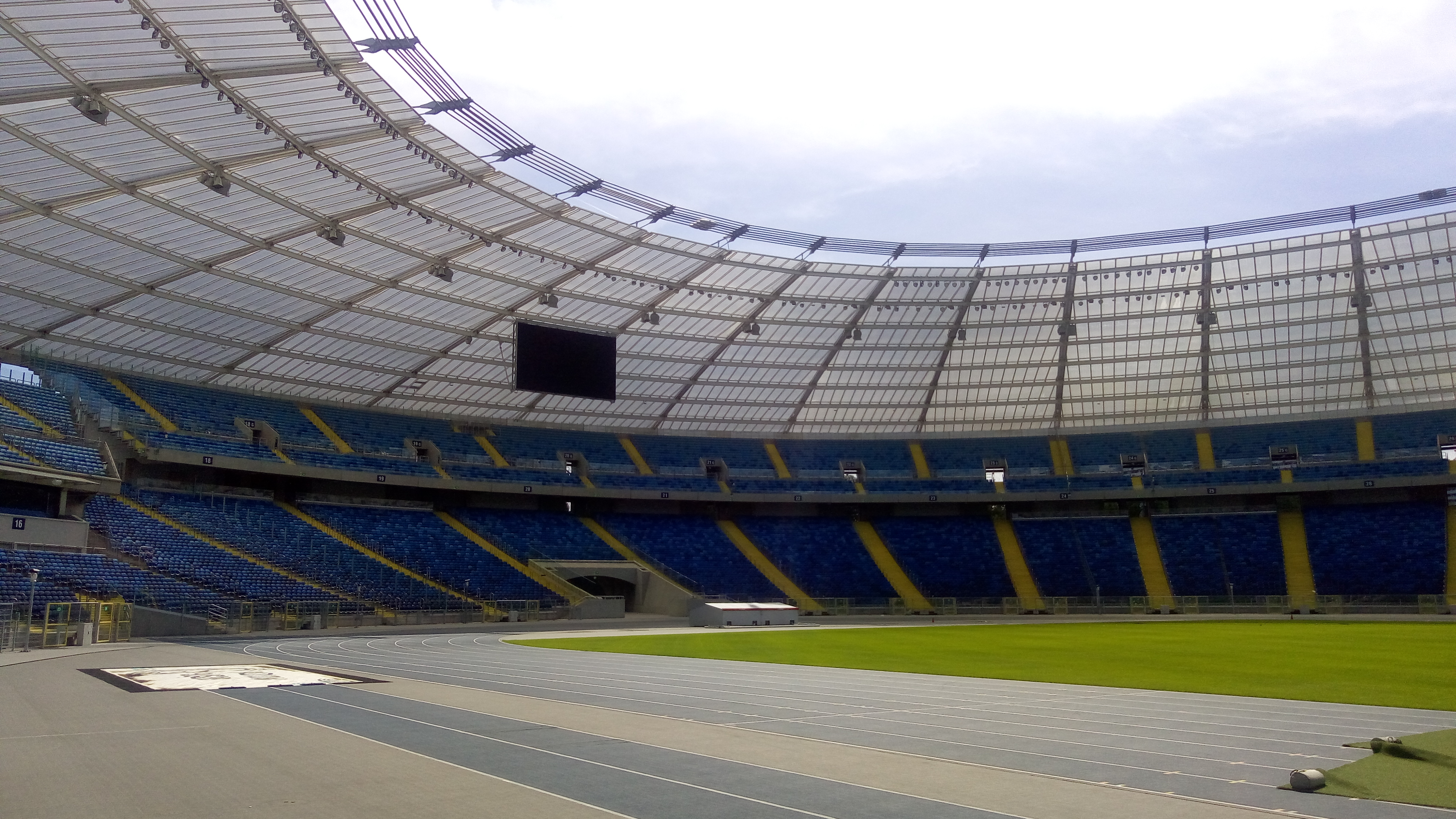 Football pitch on Silesian Stadium